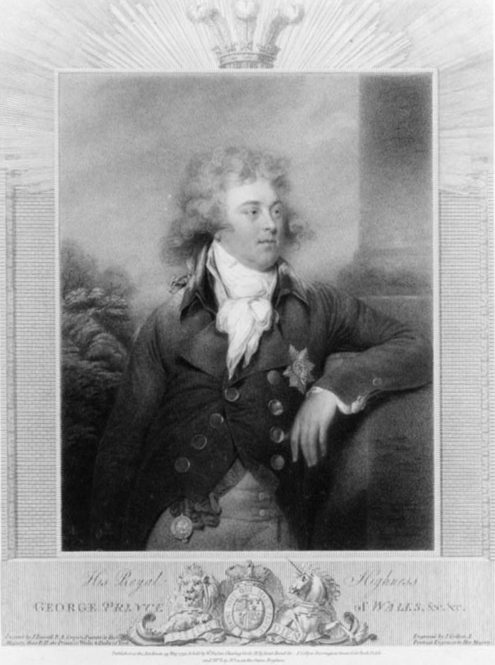 George, Prince of Wales, later George IV, King of England, half-length portrait, standing, facing right